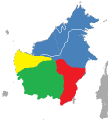 Area of Bornean Gibbon Species